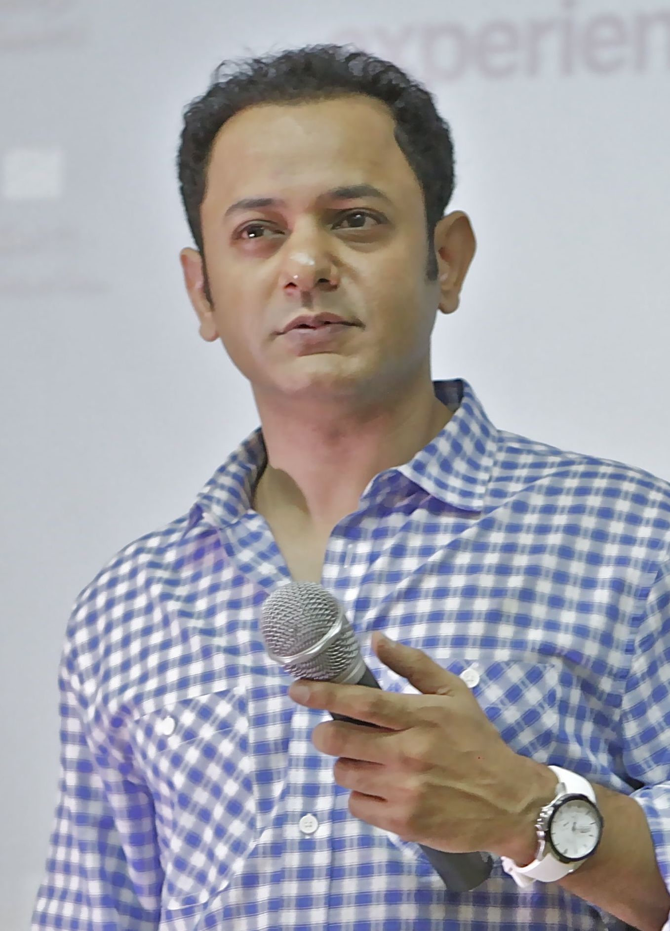 Rohit Gupta at Symbiosis International University 2013